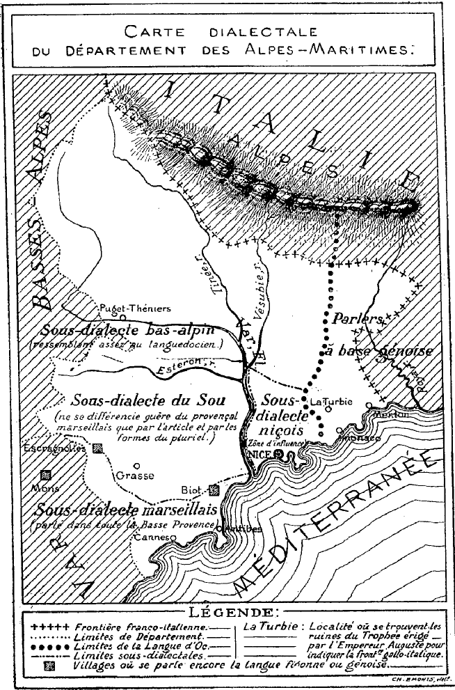 A map of the article so in the Provençal area (from Loís Funèl, 1897)